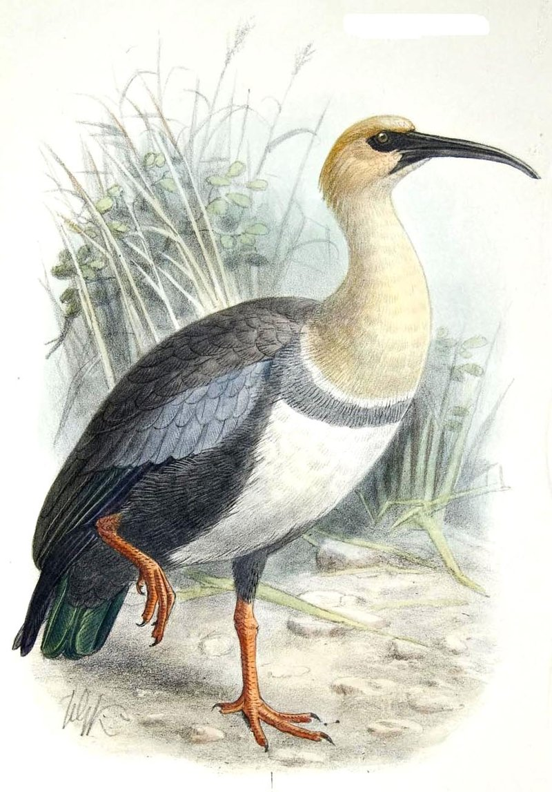 Andean Ibis (Theristicus branickii)